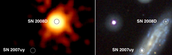 On January 9 Swift caught a bright X-ray burst from an exploding star. A few days later, SN 2008D appeared in visible light.